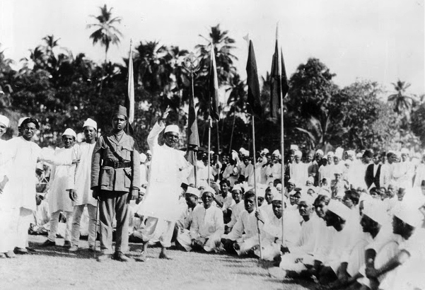 Demonstrations against British Rule in India.